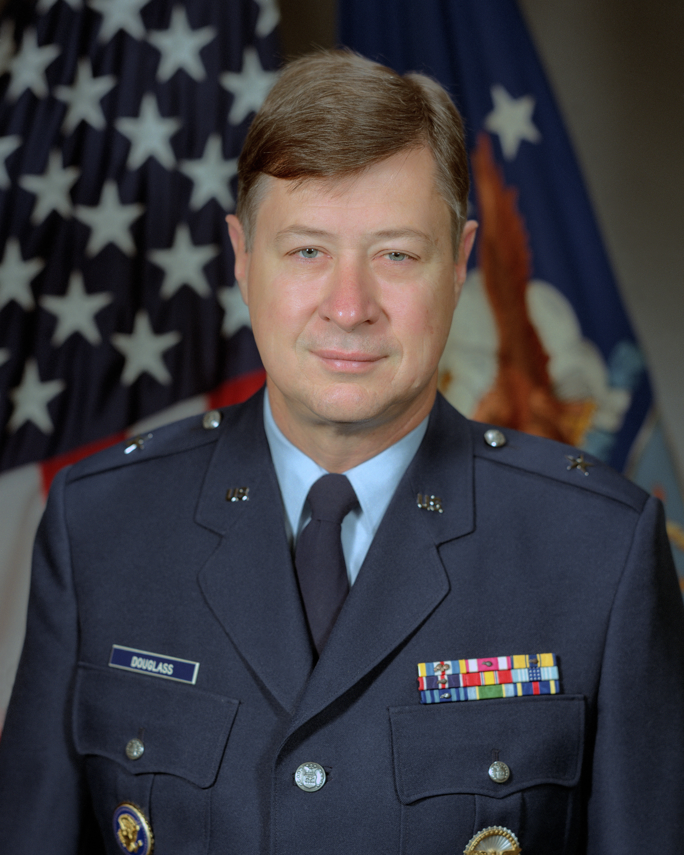 Portrait: US Air Force (USAF) Brigadier General (BGEN) John W. Douglass (uncovered)